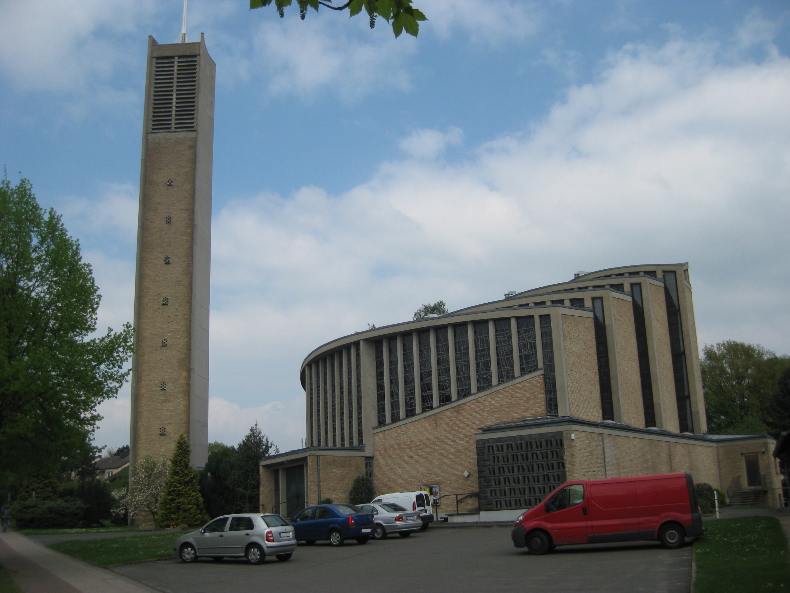 catholic parish church St. Thomas Morus in Bielefeld-Sennestadt